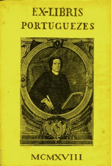 Ex-libris Portuguese Magazine